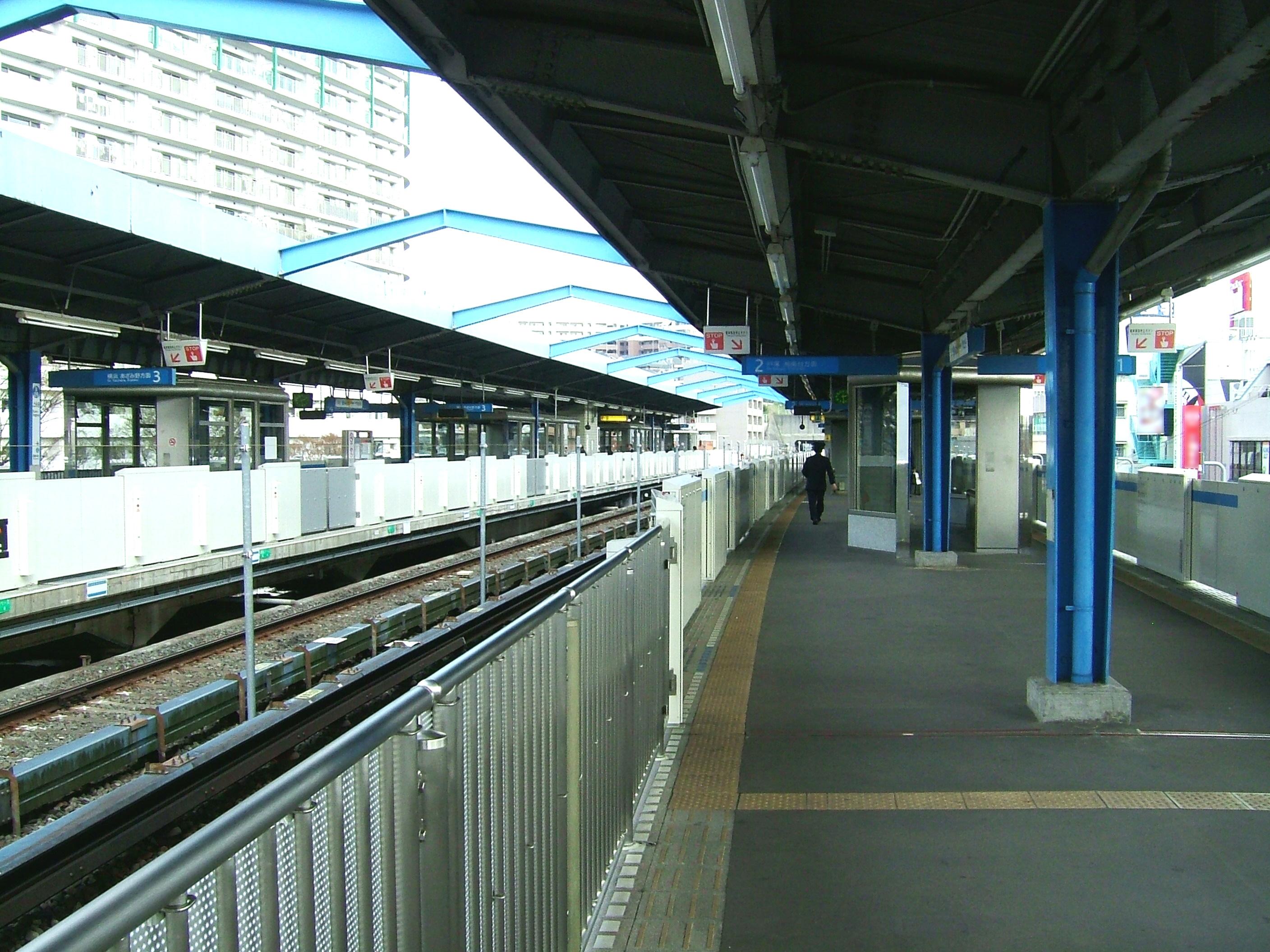 Kaminagaya Station platform (Yokohama Municipal Subway Blue Line)